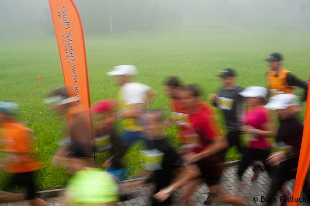 night run strbske pleso